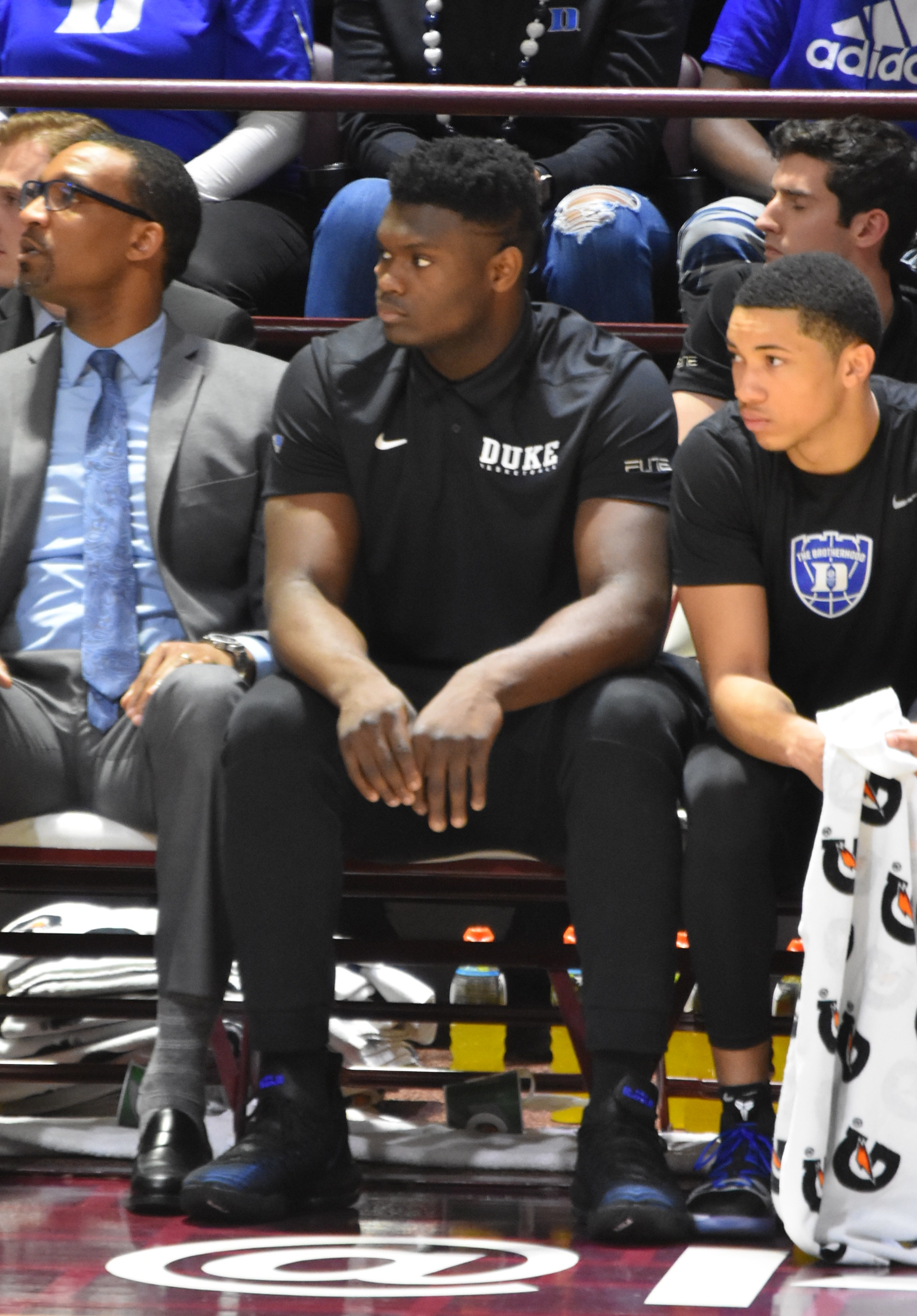 An injured Zion Williamson looks on from the Duke Bench at Cassell Coliseum